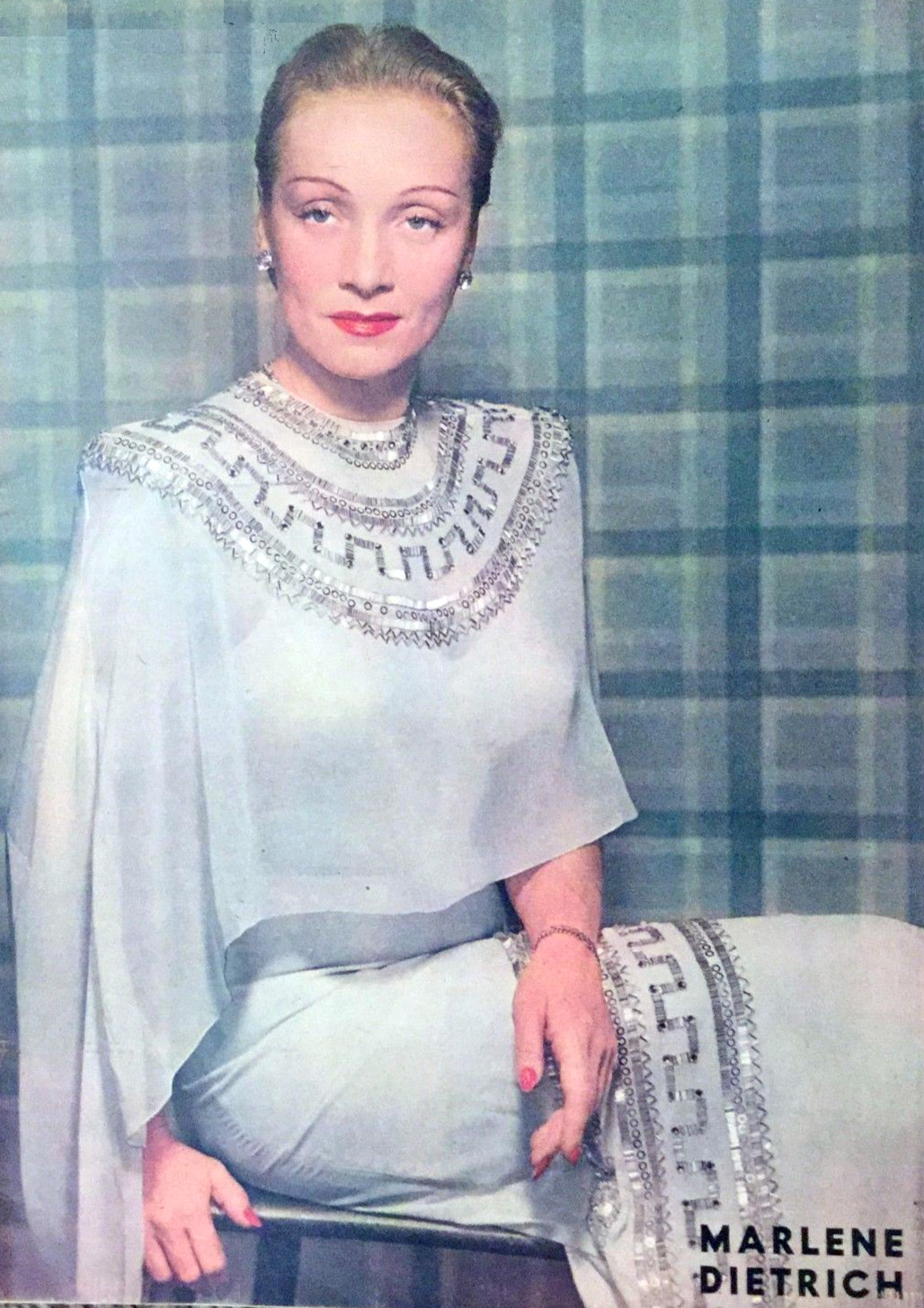 Pohoto of Marlene Dietrich from the cover of a 1948 New York Sunday News magazine.